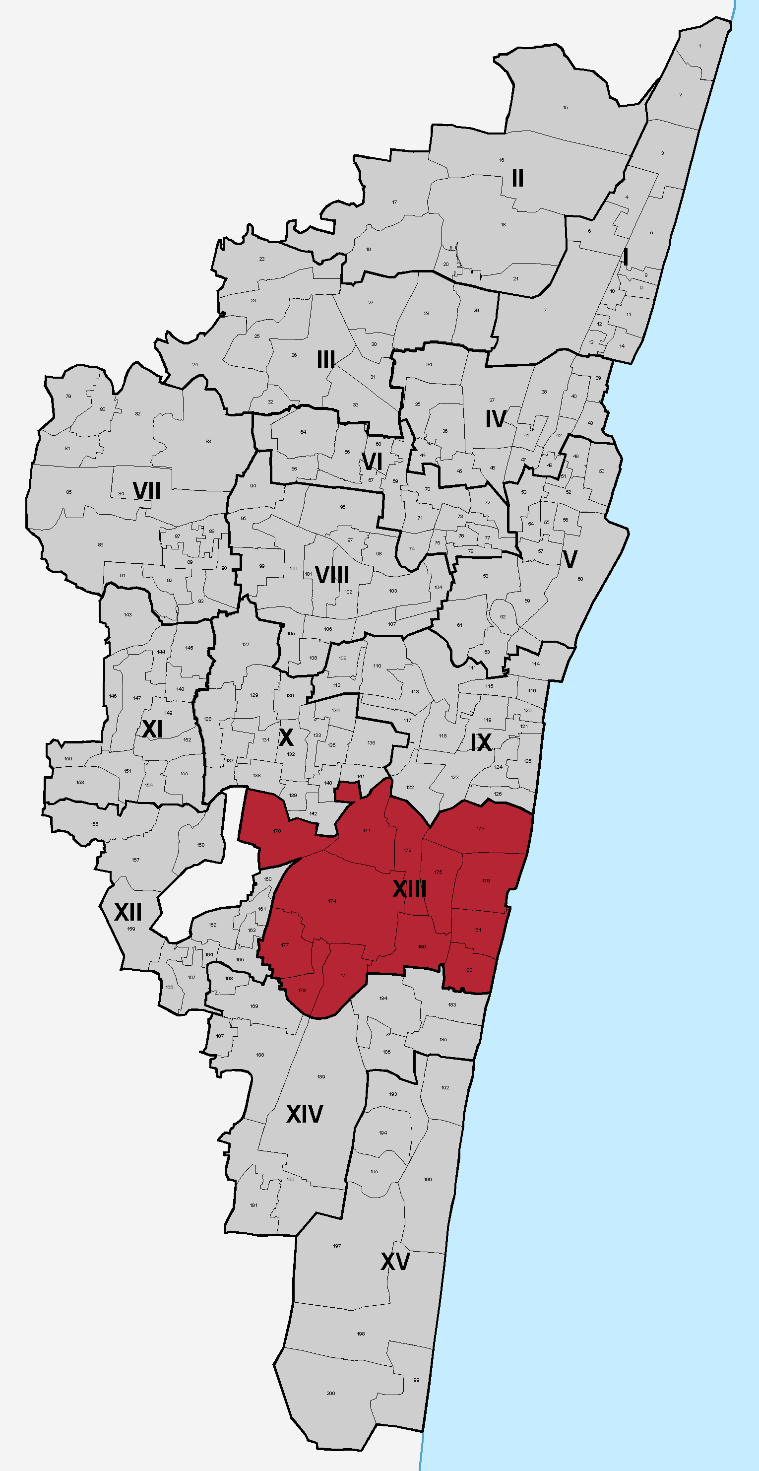 Location of Adyar zone in Chennai